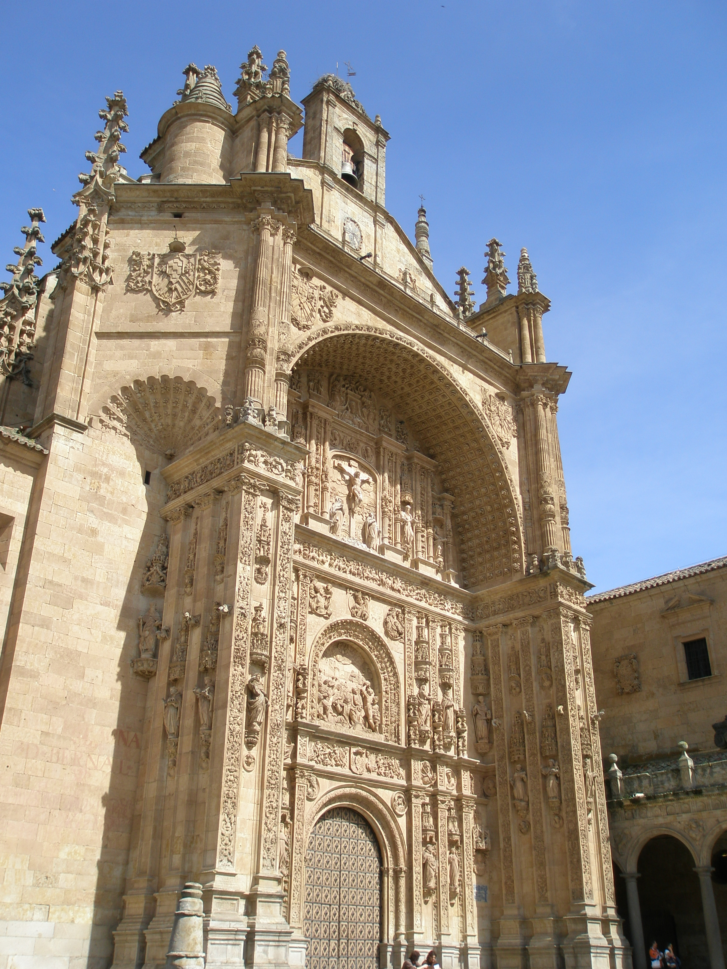 San Esteban Convent - Salamanca - Dominican order